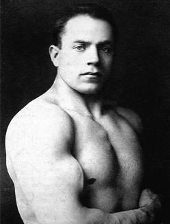 John Grün (1868-1912) from Mondorf-les-Bains, Luxembourg, who was believed to be the strongest man in the world